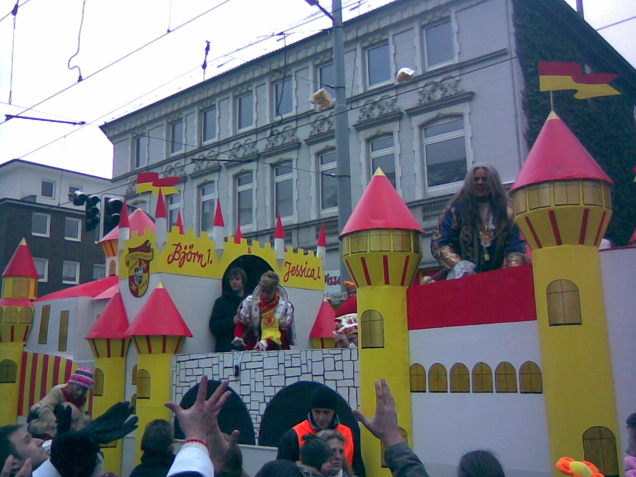 Carnival parade in Gelsenkirchen